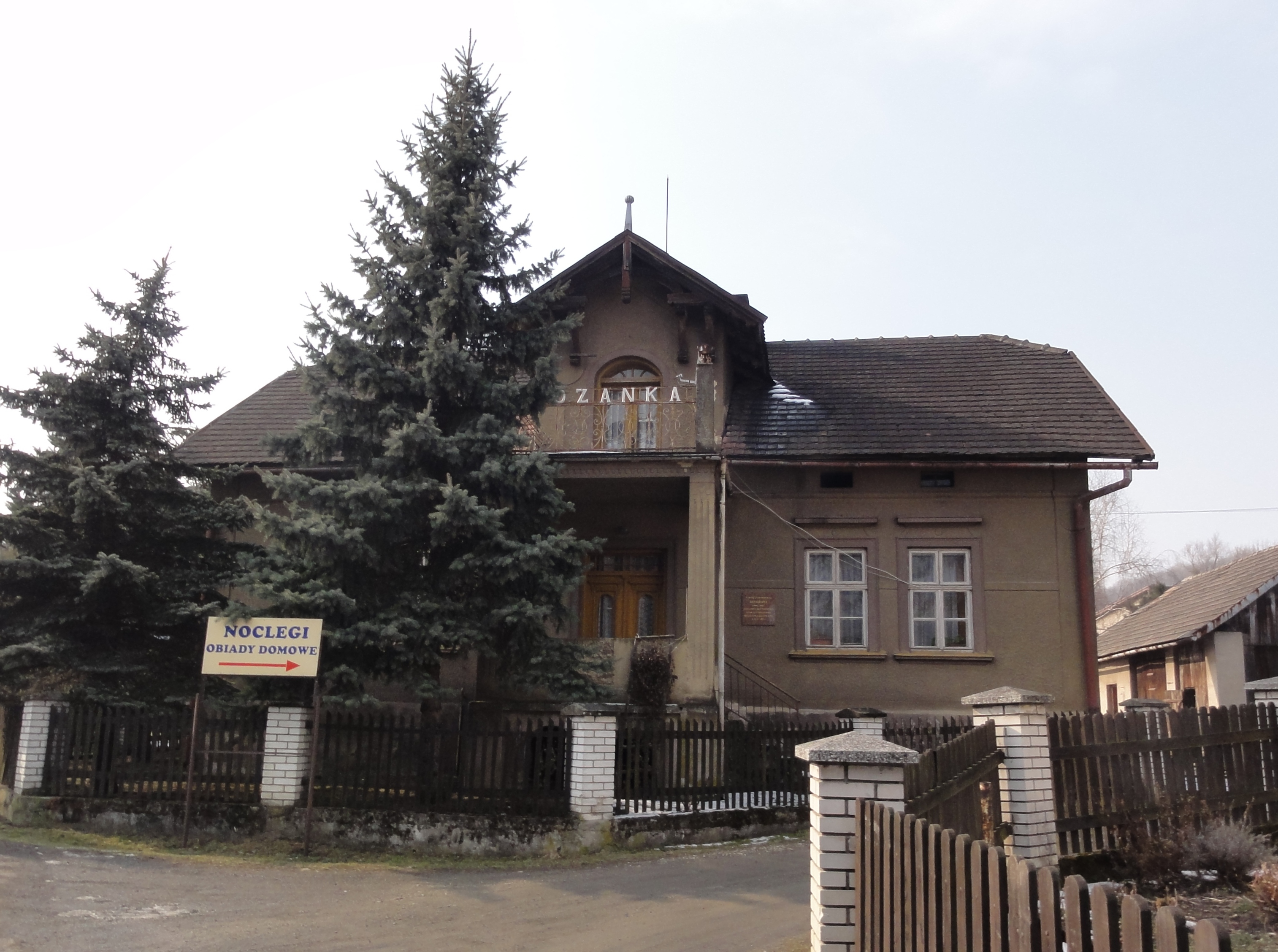 House of the Jan Ożana